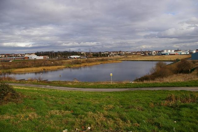 Fishing lake at Bidston Moss. Originally, this was the Overflow adjacent to Bidston Dock, which served Shotton steelworks. Then the area behind the photo was used as the municipal waste dump. When it came to the end of its working life, the area was landscaped and is now open to the public. It did have an unusual 'star-gazer' sculpture made of turf at the top, but that's been wiped out. The lake is quite picturesque on the left hand side of the photo especially with the way the boardwalks go out into the water. The main entrance is a footpath accessible within the large recycling facility. It is on the North side, and you have to go through a large metal security gate.